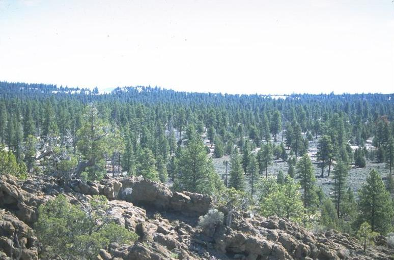 Lost Forest Research Natural Area in northern Lake County, Oregon; the area is administered by the Lakeview District of the Bureau of Land Management